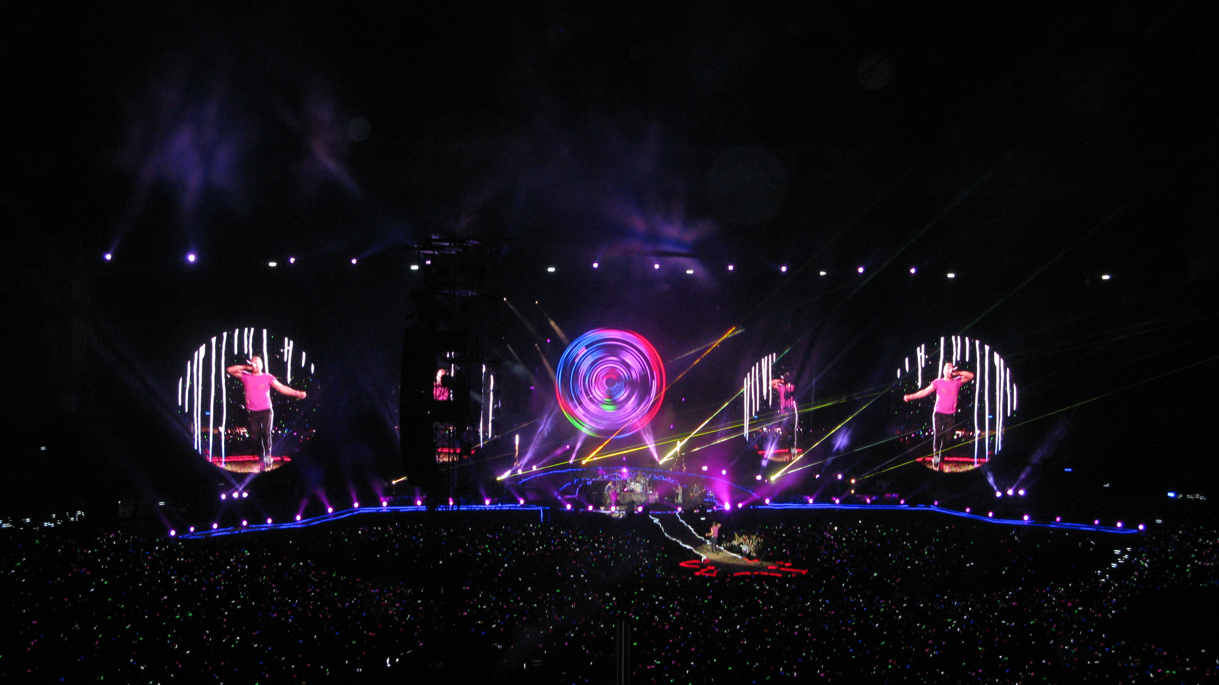 Full view of the stadium configuration of the Mylo Xyloto Tour stage, seen during a concert at the Vicente Calderón Stadium, Madrid, Spain.